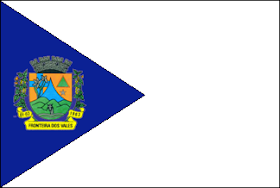 Flags of the city of Fronteira dos Vales, Minas Gerais, Brazil.